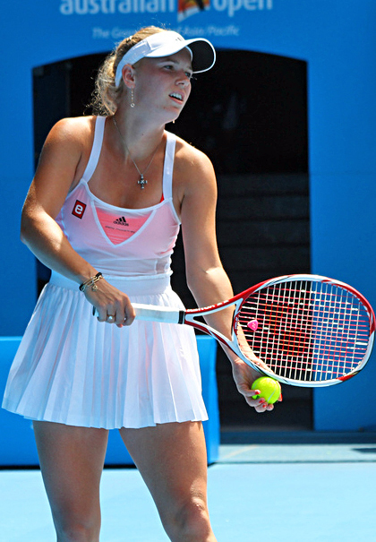 Caroline Wozniacki at the 2011 Australian Open